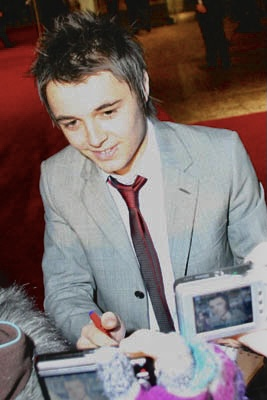 Leon attends the London premiere of The Golden Compass